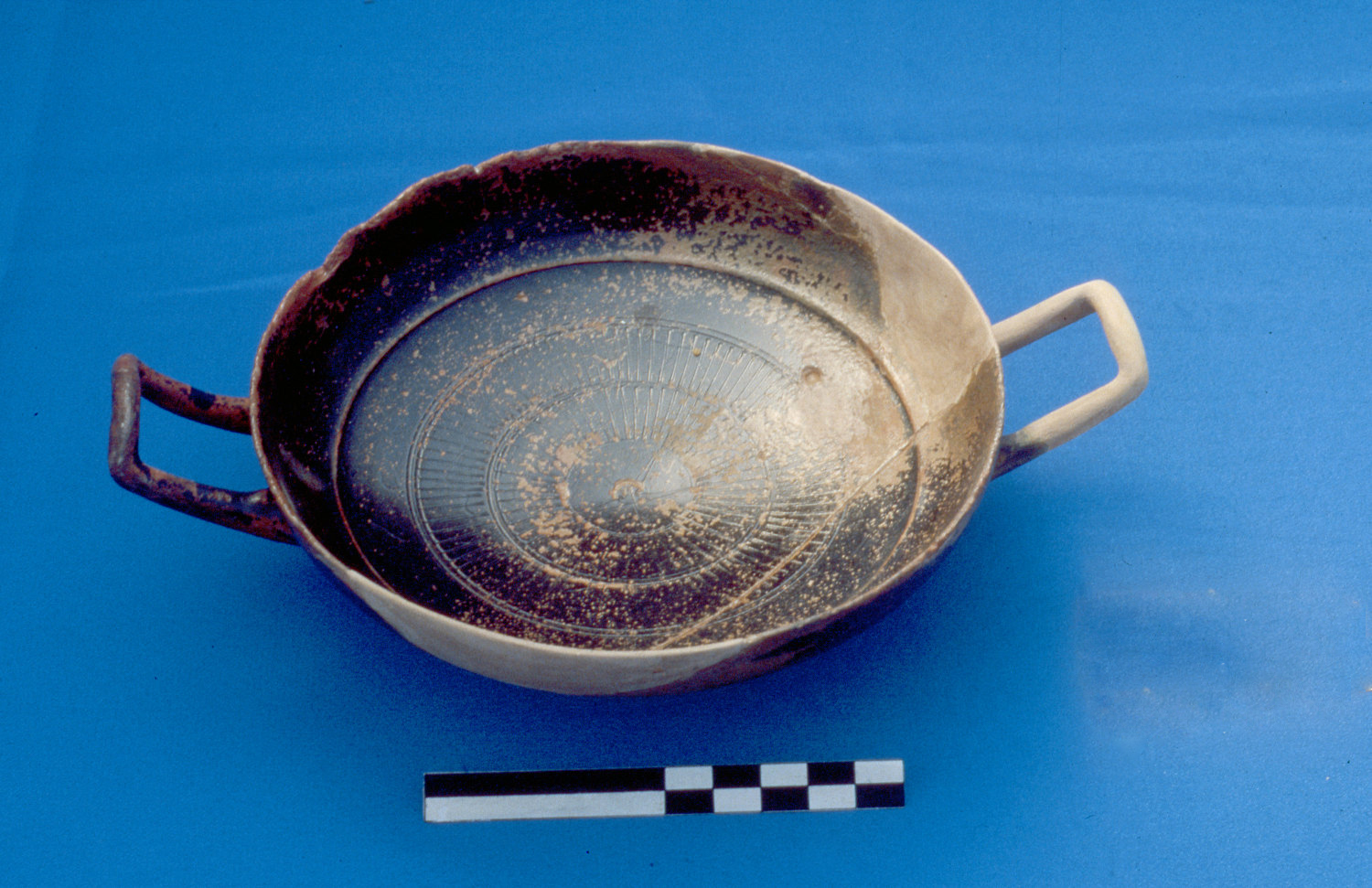 Recovered from Alonnisos shipwreck. This is a shallow stemless Athenian drinking cup (kylix), black-glazed, with engraved star in the center surrounded by two bands of rays, dated to 420-400 BC.